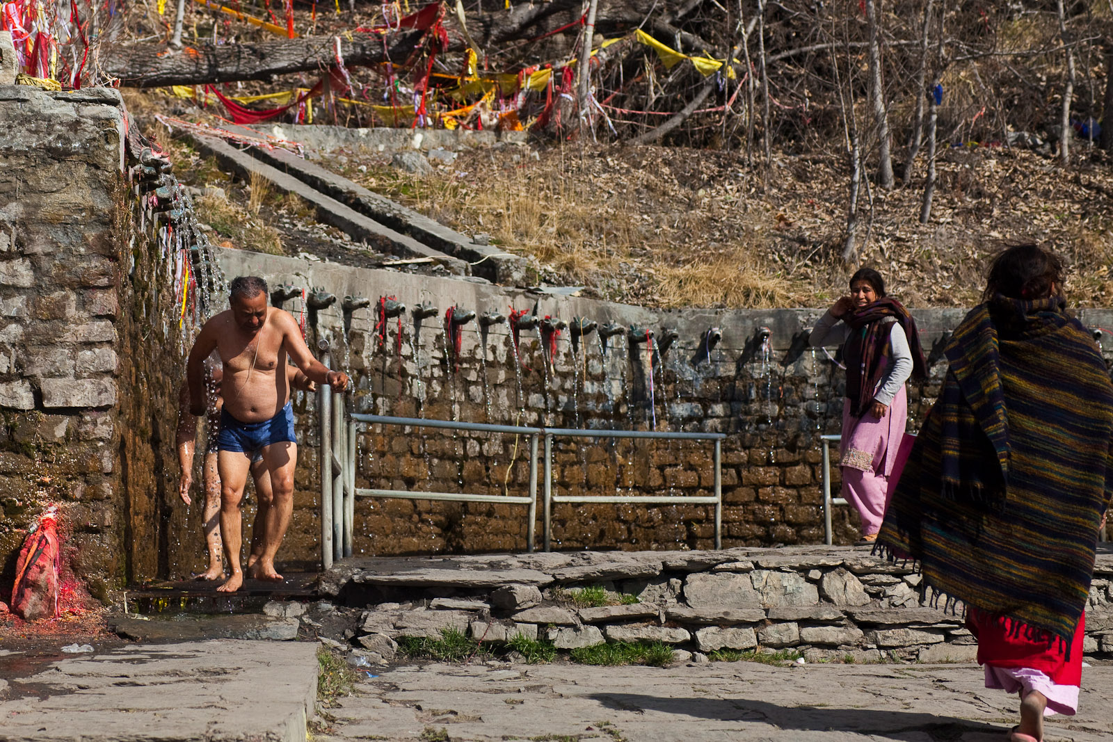 Men running through the 108 waterspouts at Muktinath